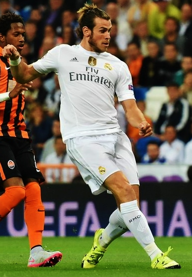 Gareth Bale